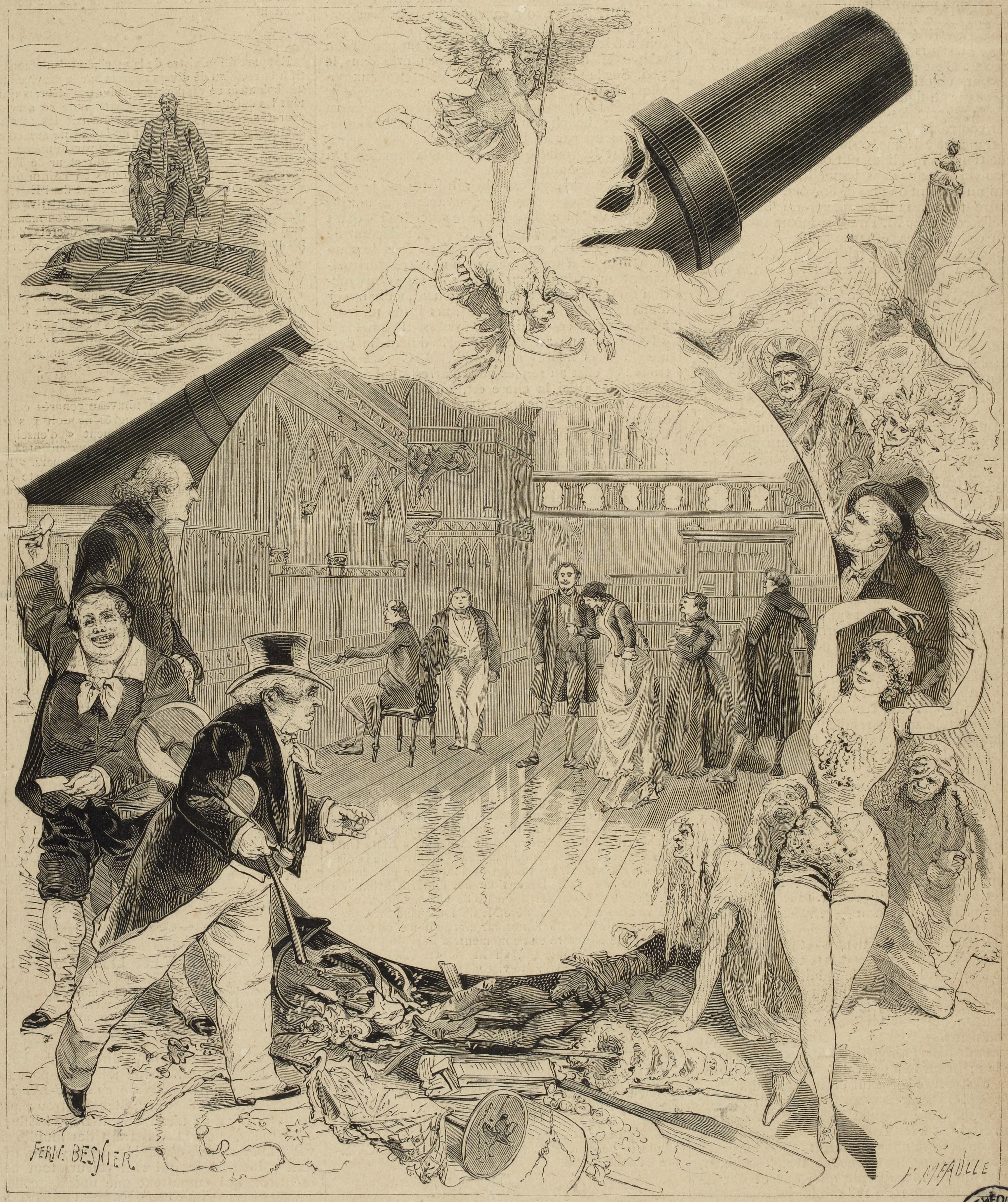 Drawing by Besnier for L'Illustration (Vol. LXXX, No. 2075, 2 December 1882, page 1), showing scenes from the play Voyage à travers l'impossible. More information about this engraving here.